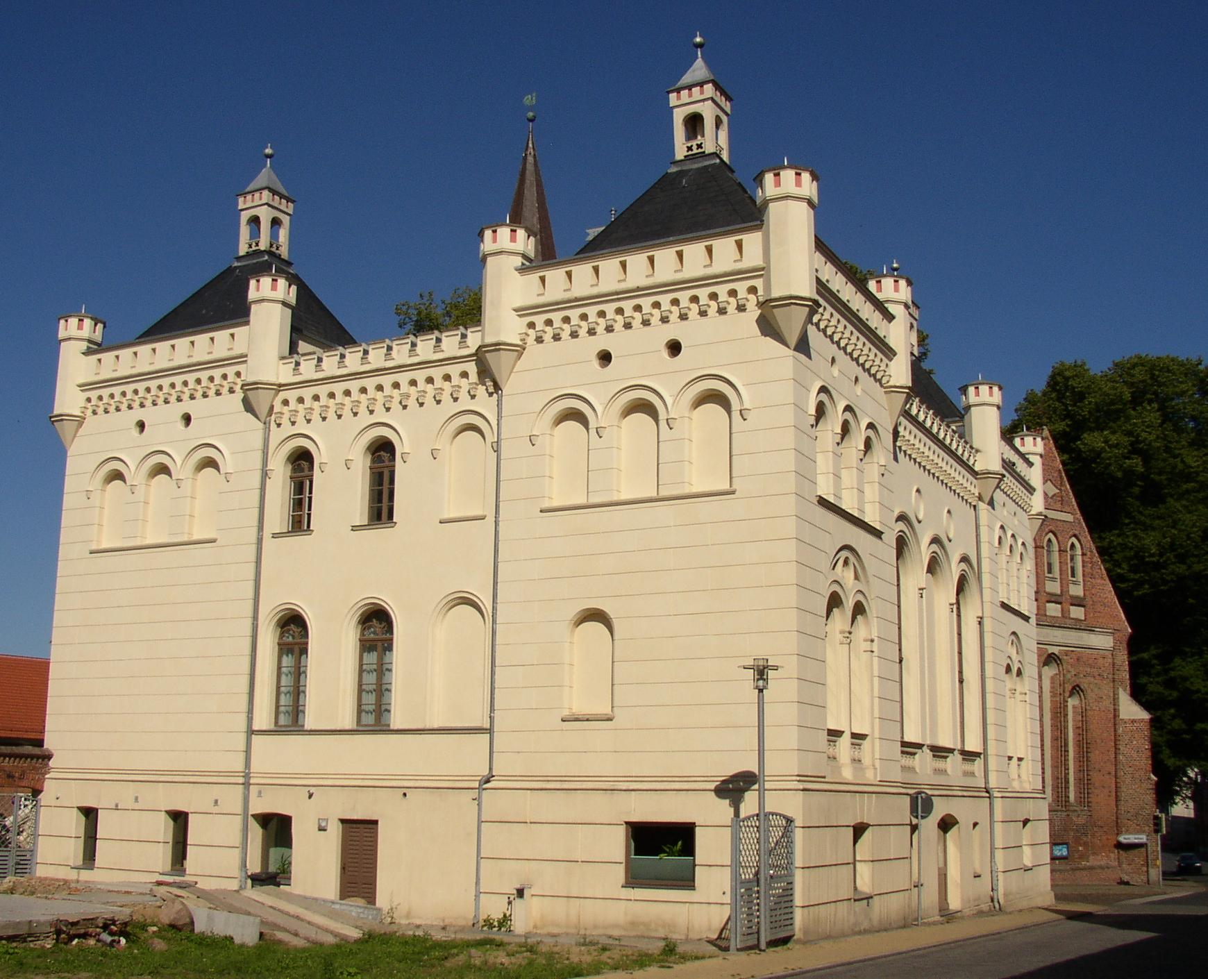 Town hall in Wittenburg in Mecklenburg-Western Pomerania, Germany